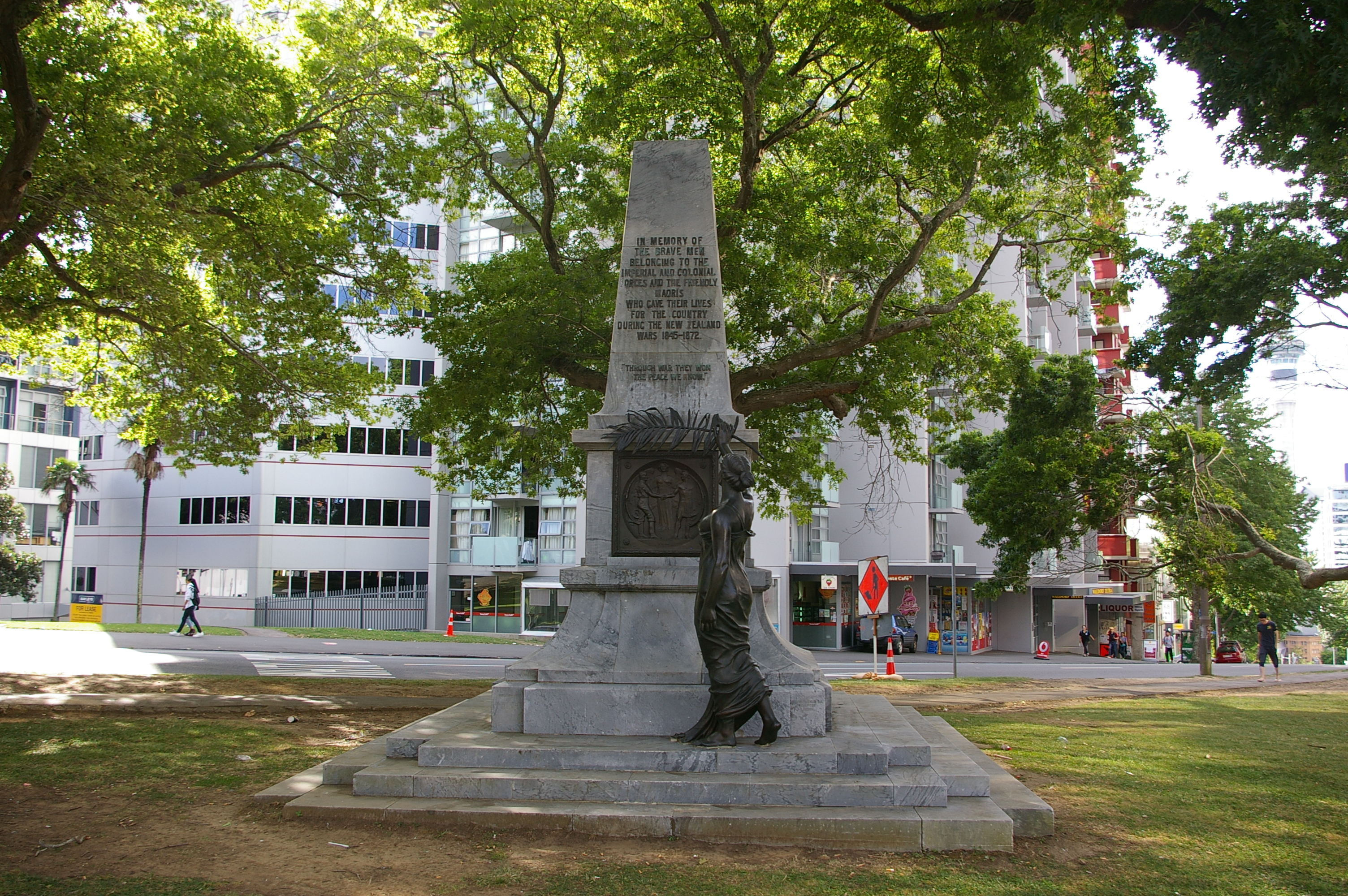 Zealandia monument at the corner of Wakefield and Symonds Street, Auckland, New Zealand.